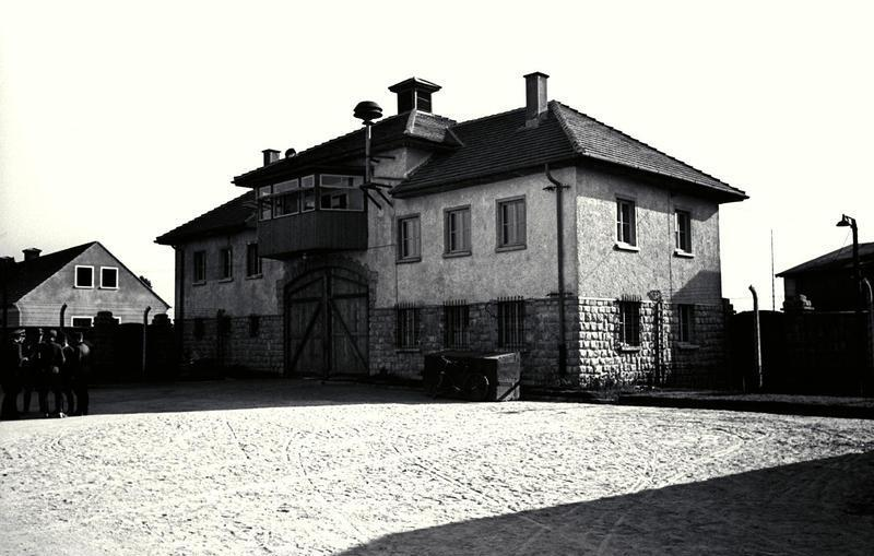 Information added by Wikimedia users.